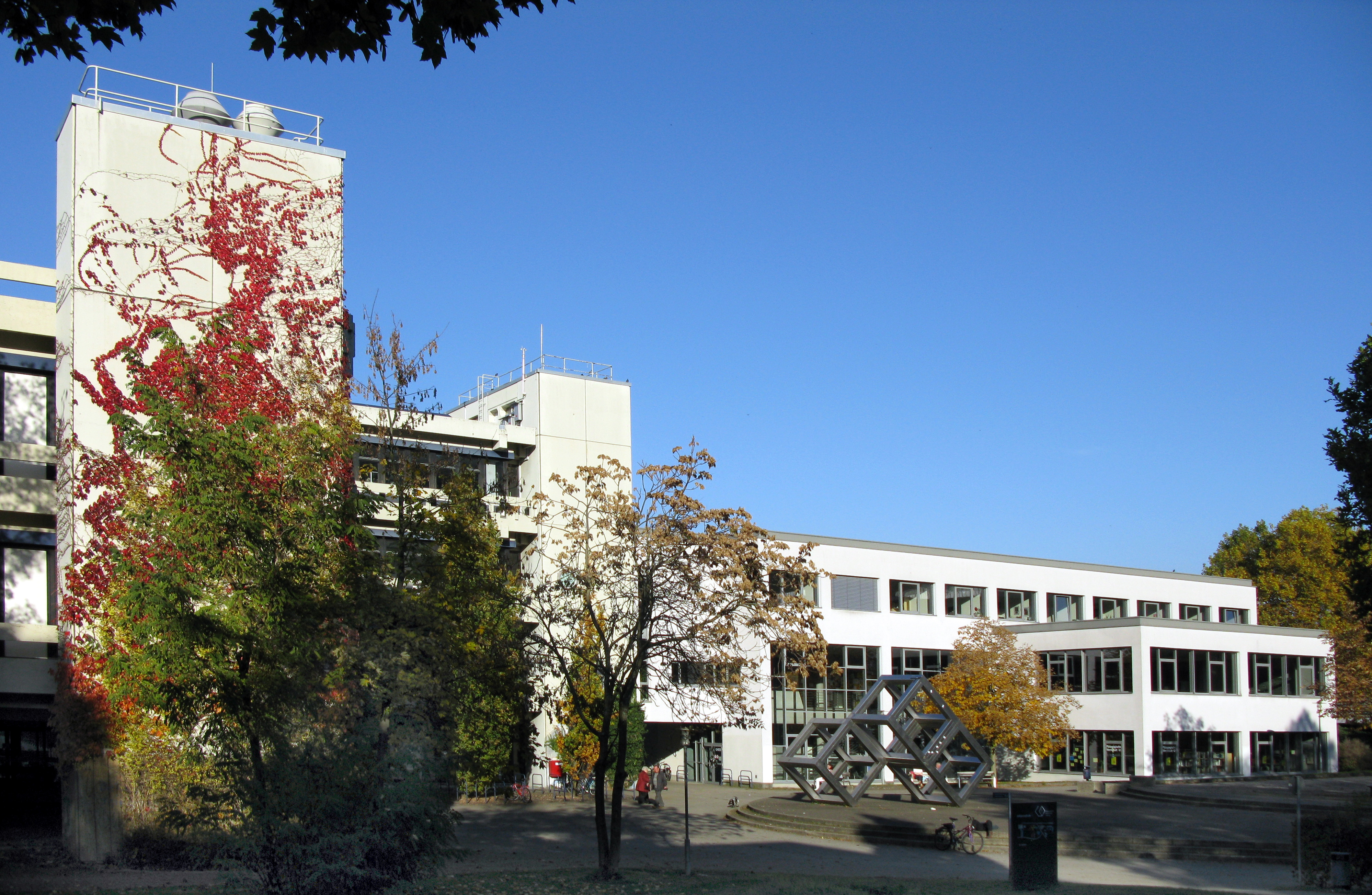 Pedagogical college Freiburg with sculpture